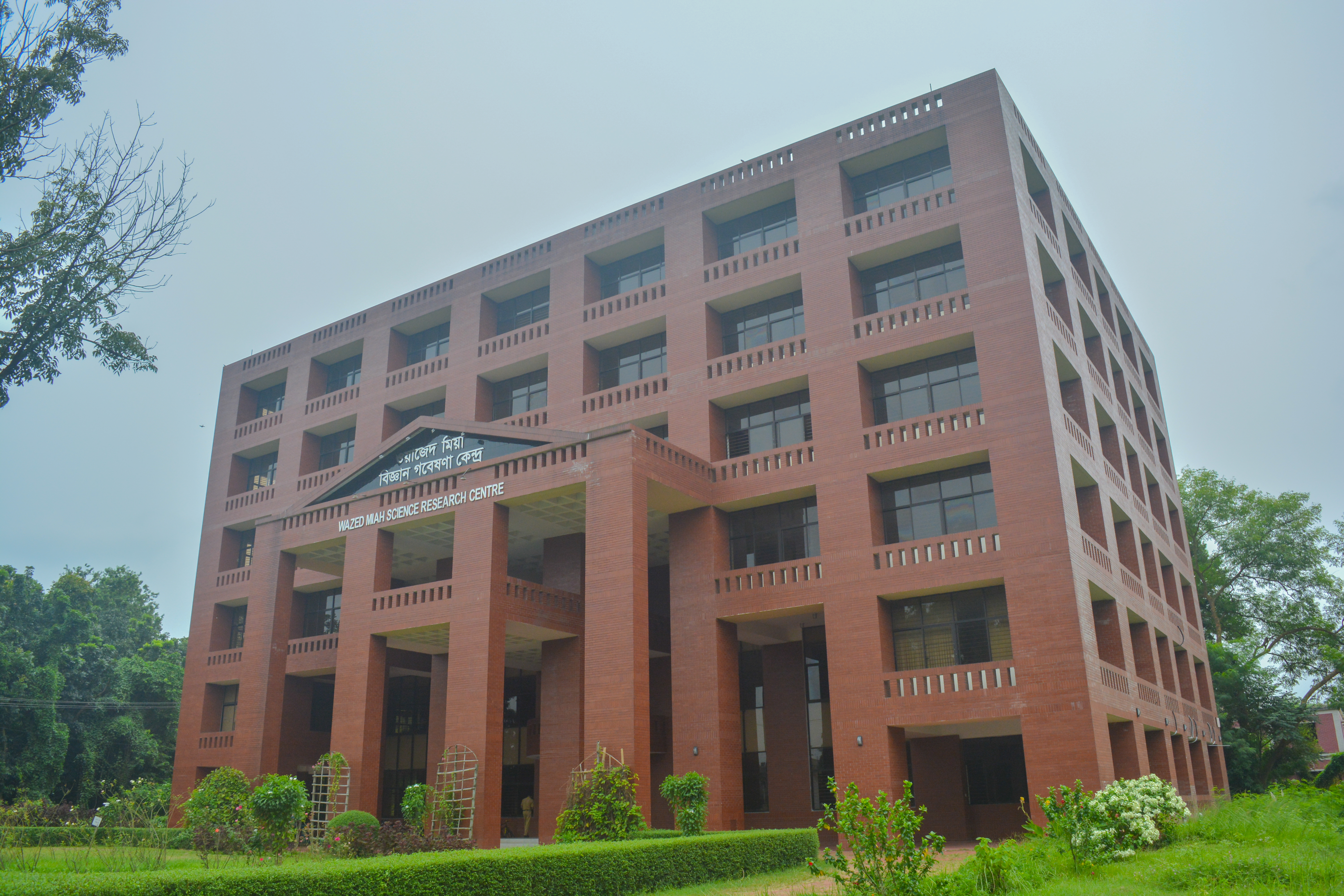 WAZED MIAH SCIENCE RESEARCH CENTER was established on 30th May, 2009. Since then, it has been operating its activities temporarily in the 2nd floor of Zahir Raihan Auditorium, Jahangirnagar University. A six storied building is under construction and is expected to be completed in few months time. The research center has fully air conditioned laboratories having sophisticated modern instrumental facilities. Its foremost purpose is to enhance research amenities of science faculties.